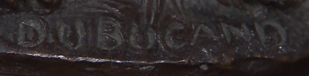 Signature of French sculptor Alfred Dubucand